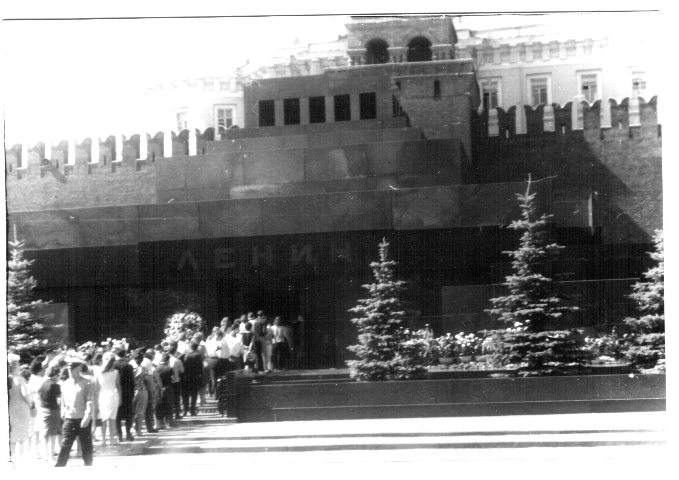 Live from the 29th of June, 1966. Visitors waiting for access to the Lenin Mausoleum (1). At the Lenin Mausoleum (3)Students of the Szinyei Merse Pál Secondary School (Budapest, Terézváros) set out for a tour in the USSR. The journey took one and a half day from Budapest to Moscow. 32 kids, 2 teachers. Published under Creative Commons in the Metapolisz DVD line.